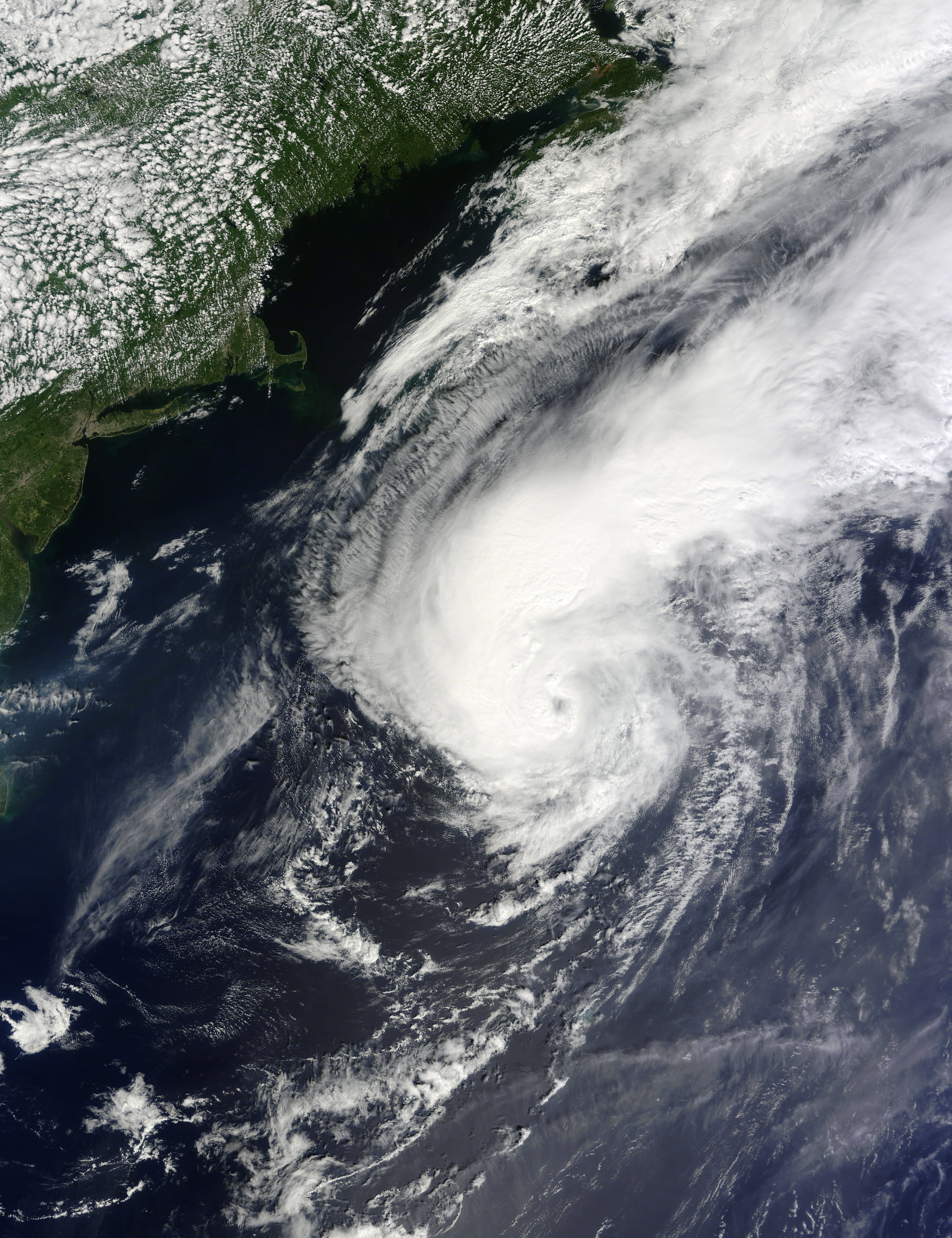 Hurricane Cristobal (04L) off the eastern United States